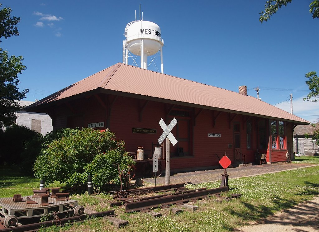 Chicago, St. Paul, Minneapolis, & Omaha Depot (now the Westbrook Heritage House Museum) and the Westbrook water tower, Westbrook, Minnesota, USA. Viewed from the southwest.